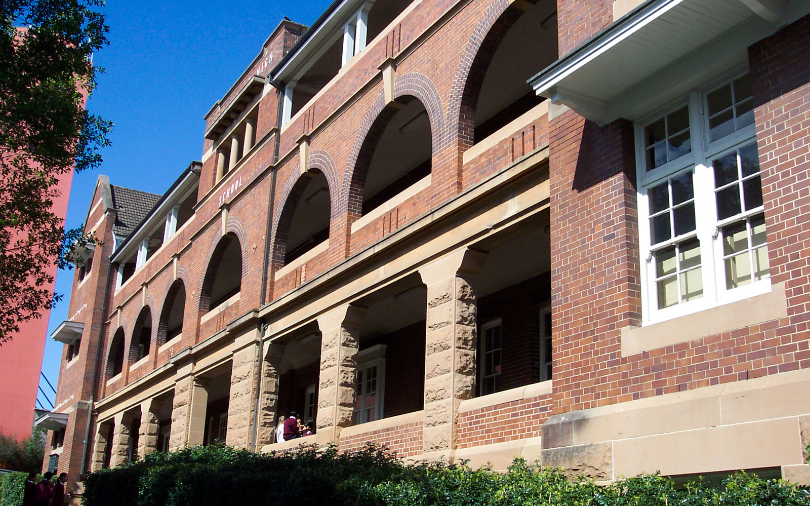 Fort Street High School, Petersham, Sydney Taken by Enoch Lau on 9 September 2003. As a courtesy, please let me know if you alter this image or this image description page. Original filename was 100_1277.JPG.